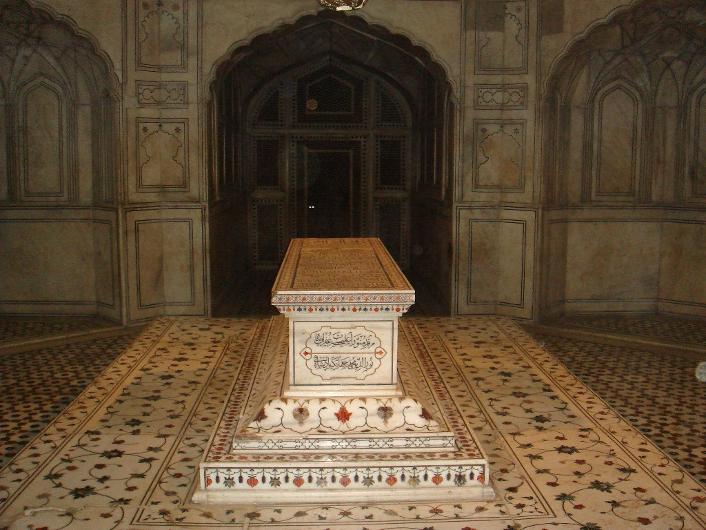 Picture by M Kaiser Tufail, 8 Oct '06